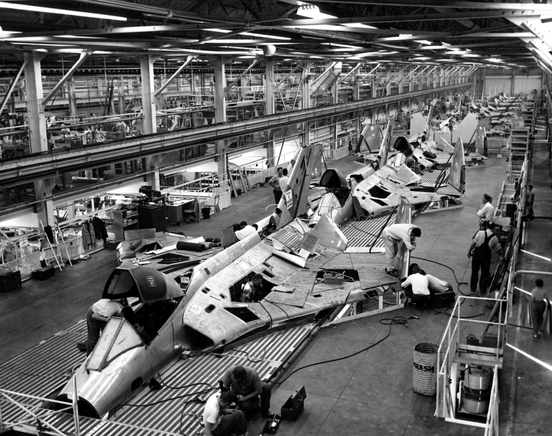 View of the assembly line for the F4D-1 Skyray at the Douglas plant in El Segundo, California (USA). The aircraft in from is BuNo 134744, the 13th production aircraft.